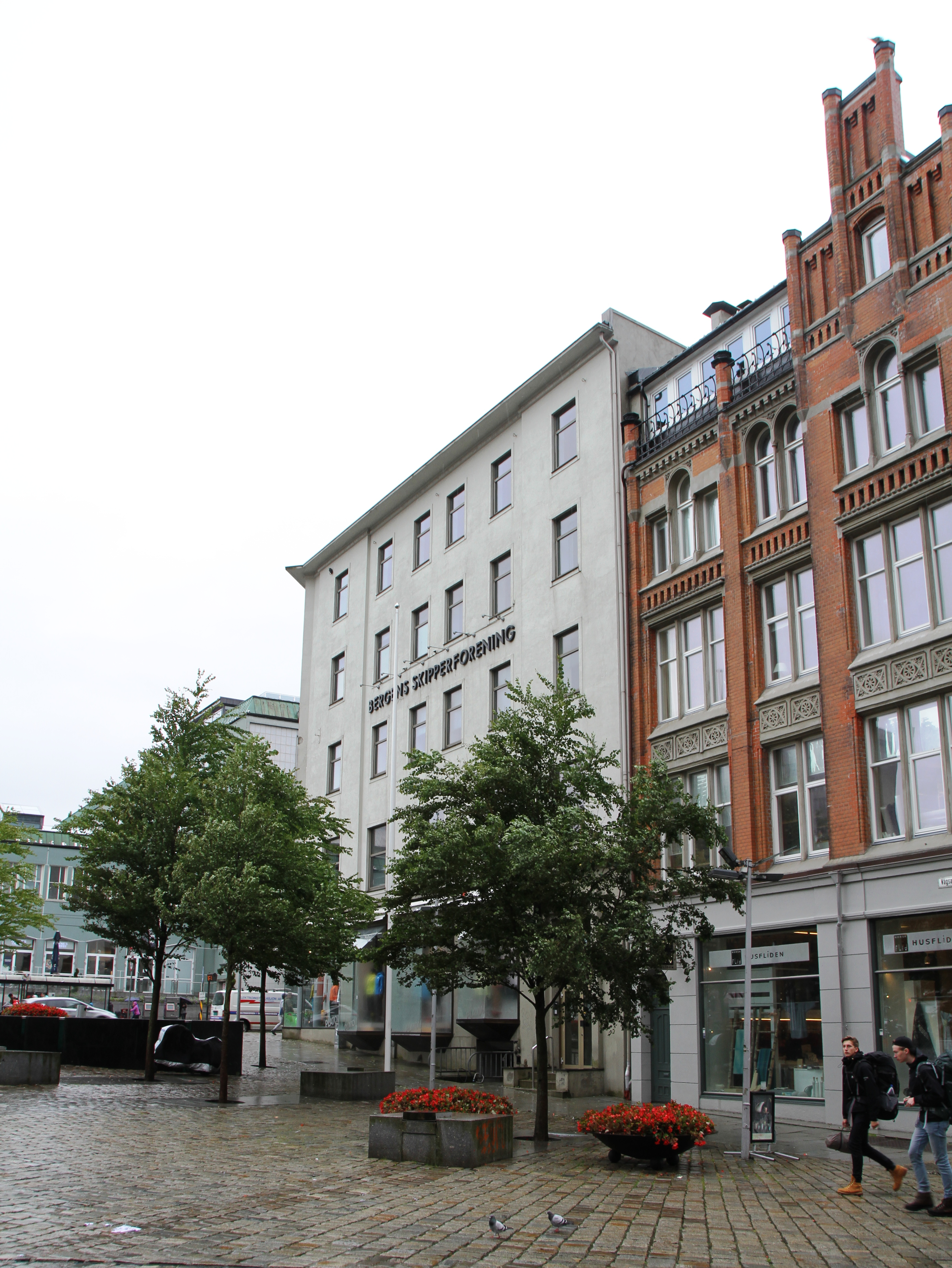 Bergen Merchant Captains' Association, in Bergen (Norway)